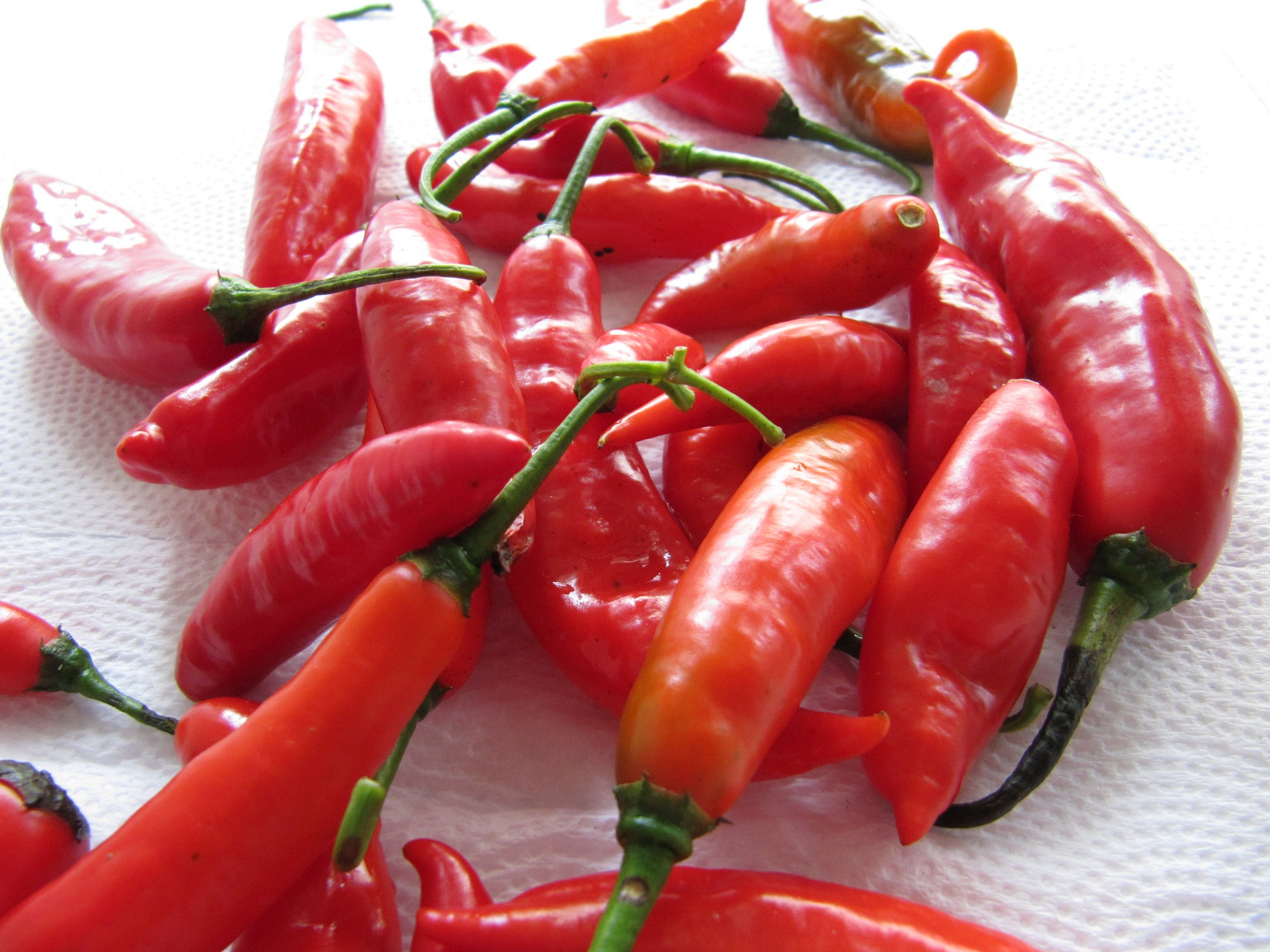 Red chili peppers (Capsicum frutescens). Spotted in São Carlos, Brazil.